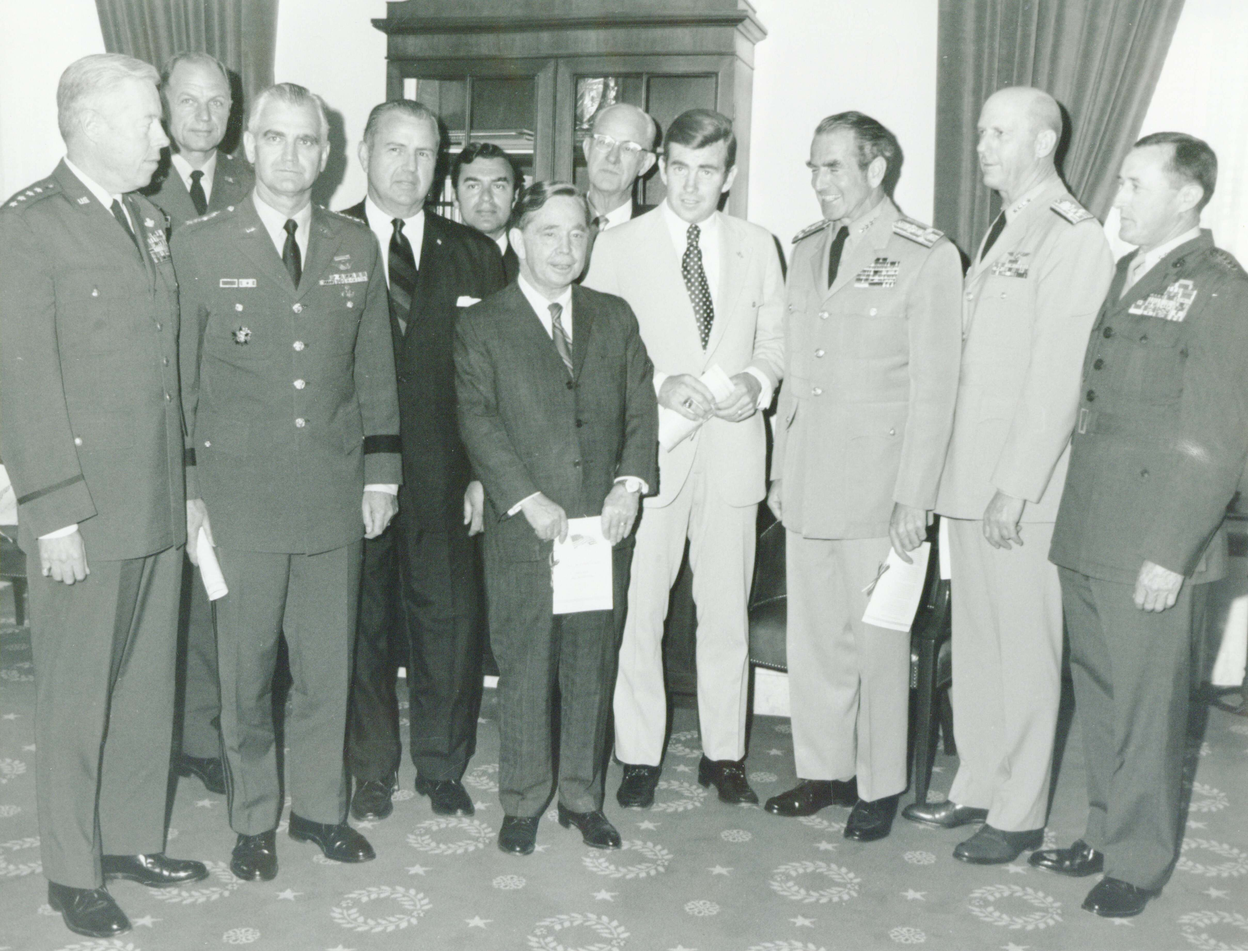 Black and white photograph print of Carl Albert standing with William Westmoreland, Jack Kemp, Elmo Zumwalt, and others at Flag Day ceremonies. June 14, 1971